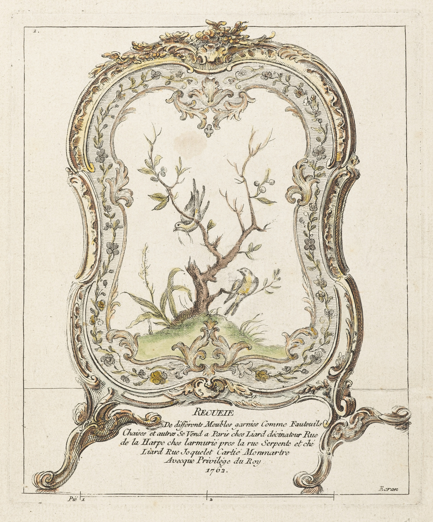 by Matthew Liard Object ID: 18258941 Accession Number: 1921-6-345-1 Tombstone: Recueil de différents Meubles garnies Comme Fauteuils, Chaises et autres. Se vend à Paris chez Liard dessinateur Rue de la Harpe ches larmurié pres de la rue Serpente et ché Liard Rue Jocquelet Cartié Monmartre avecque Privilége du Roy. 1762. Sheet: 30 x 21.9 cm (11 13/16 x 8 5/8 in.) Platemark: 19.2 x 16 cm (7 9/16 x 6 5/16 in.). Purchased for the Museum by the Advisory Council. 1921-6-345-1. Period: Rococo